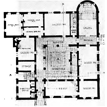 An floorplan of a building by the architectural firm Cram and Ferguson of Boston, Massachusetts from a 1920 proposal for the Currier Art Gallery in Manchester, New Hampshire.